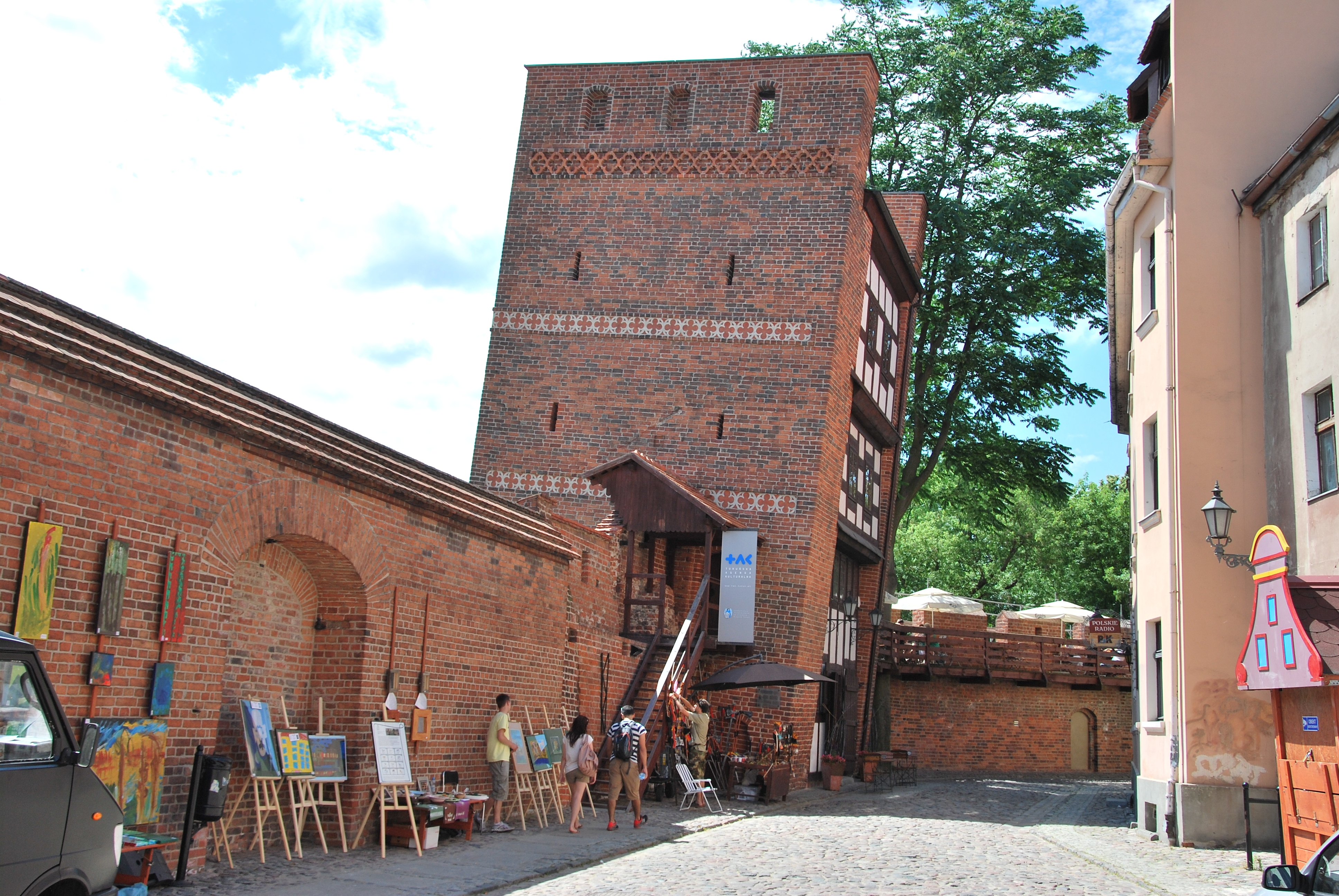 Leaning Tower in Toruń